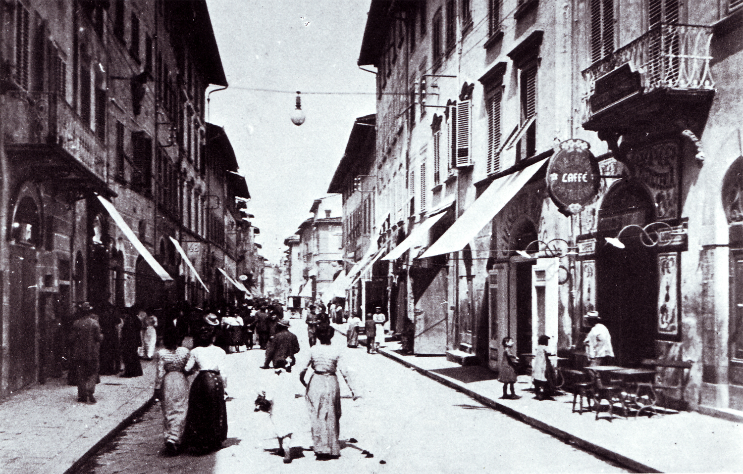 Montevarchi: Via Roma at the end of XIX century.